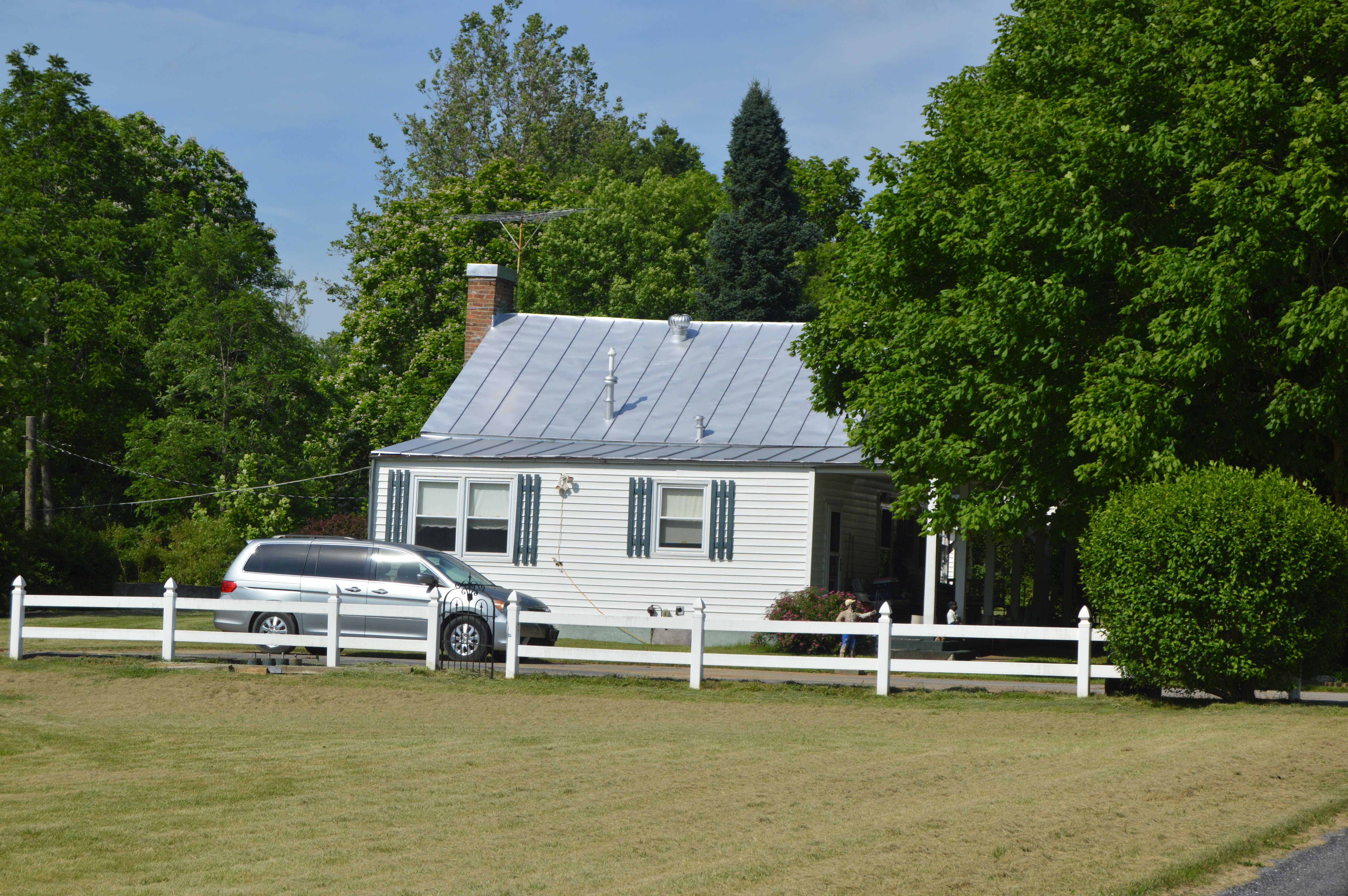 Southwestern side of the former Walker's Creek Schoolhouse (now a house), located on Walker Creek Road northwest of Newport in Augusta County, Virginia, United States. Built in 1850, it is listed on the National Register of Historic Places.